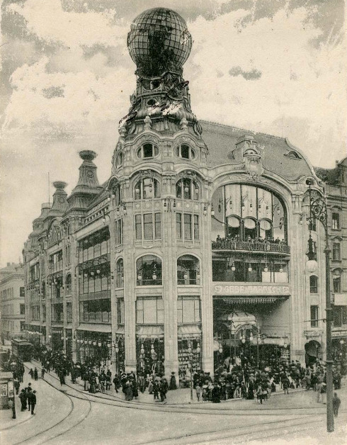 Department store Gebr. Barasch, Breslau / Wrocław, opened 1904